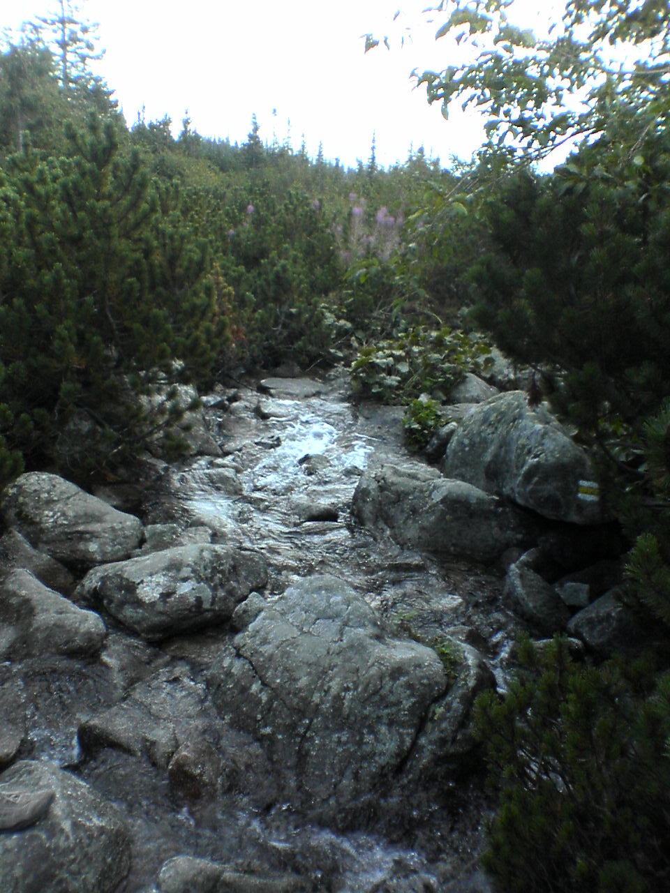 The creek of Suchý Potok